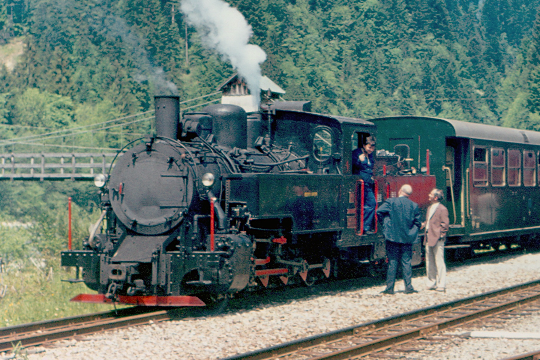 Zillertalbahn Nr. 4 with an EUROVAPOR special in Doren-Sulzberg station on the Bregenzerwaldbahn.